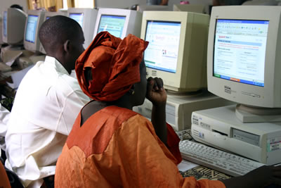 Geekcorps computer training class, Bamako, MaliIMG_1367